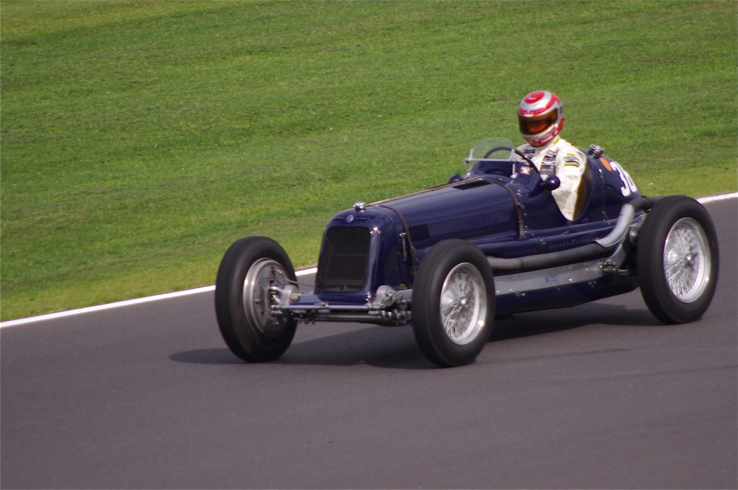 Silverstone Classic 2011